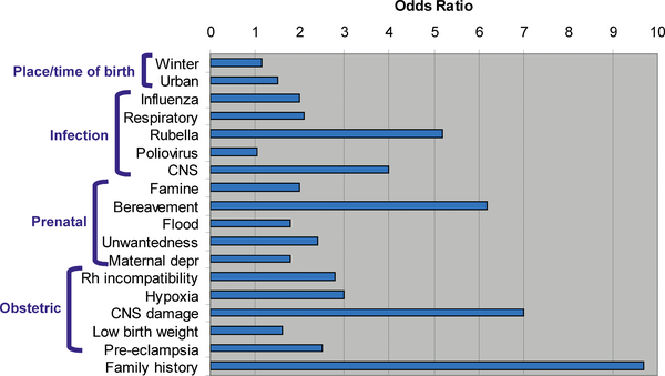 Schizophrenia risk factors